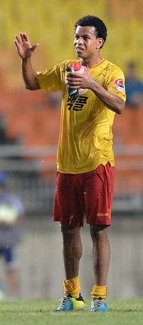 Edcarlos Conceicao Santos